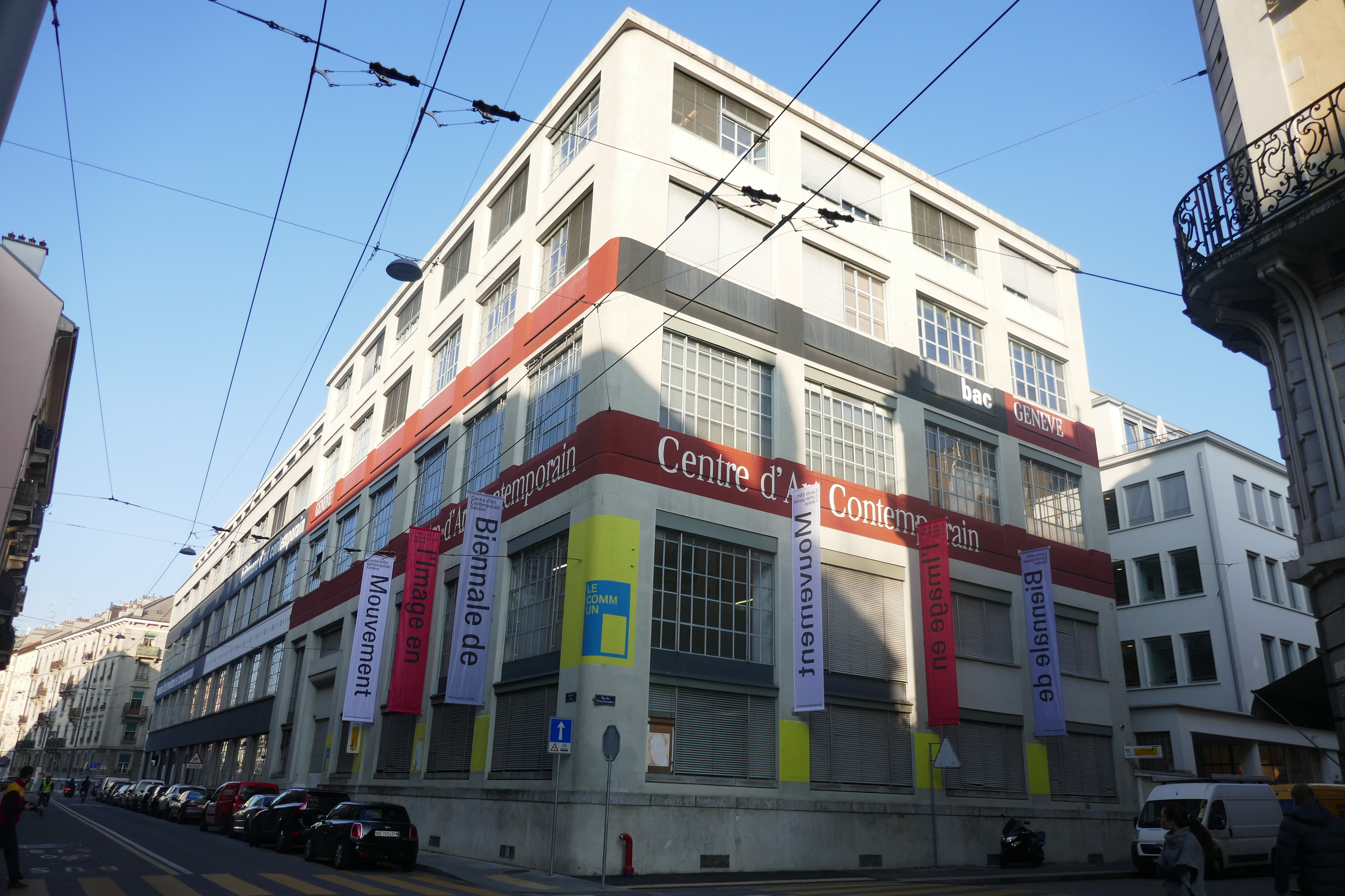 Building of the Centre d'Art Contemporain Genève at the Rue des Vieux-Grenadiers 10, Geneva